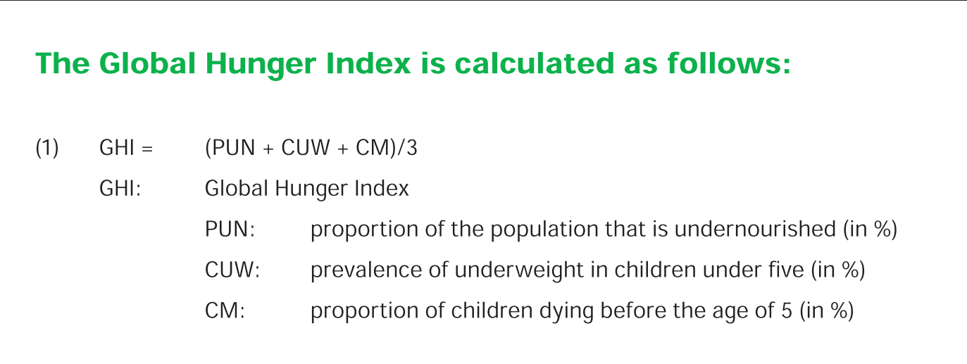 2006-2014_ GHI 계산